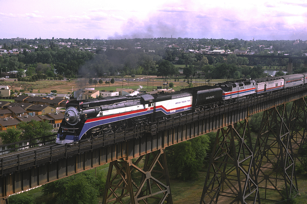 SP 4449 crossing the Sacramento River bridge at Redding, CA, on the way home to Portland, OR, with the Amtrak excursion that had originated in Alabama. April 29th, 1977